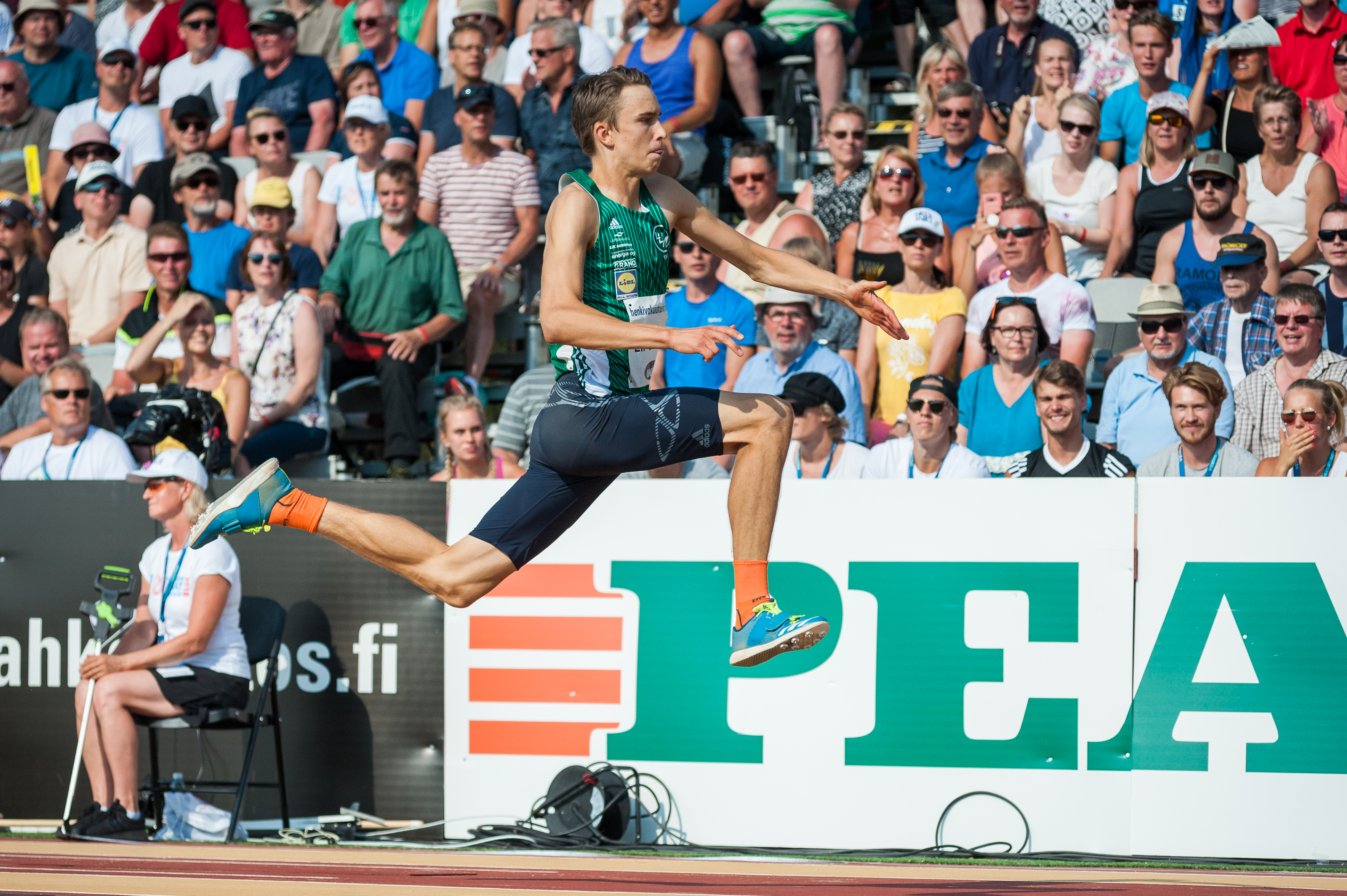 Men's triple jump competition at the 2018 Kalevan Kisat, the Finnish championships in athletics, in Jyväskylä, Finland.